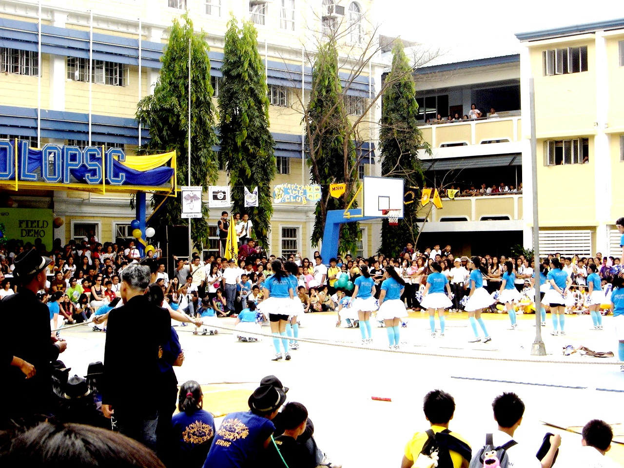 OLOPSC Quadrangle on Foundation Day